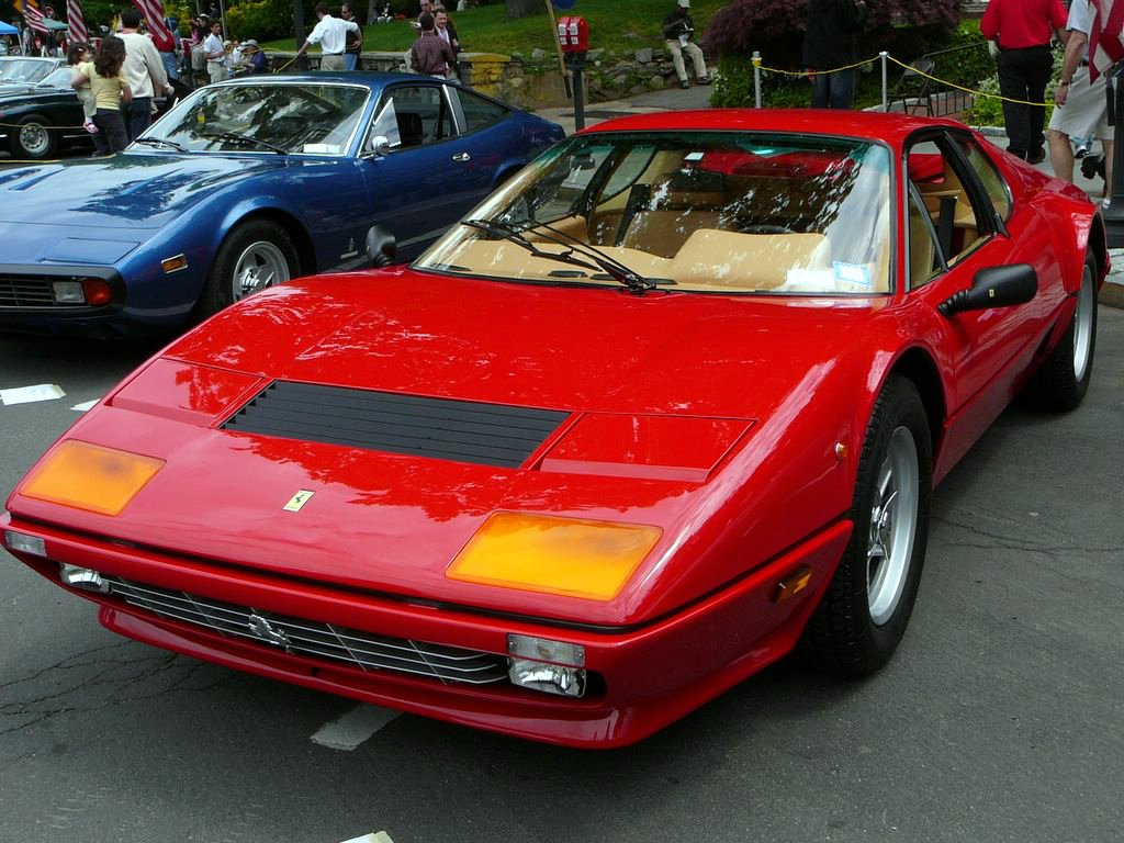 1983 (?) Ferrari 512BBi at the 2006 Scarsdale Concours